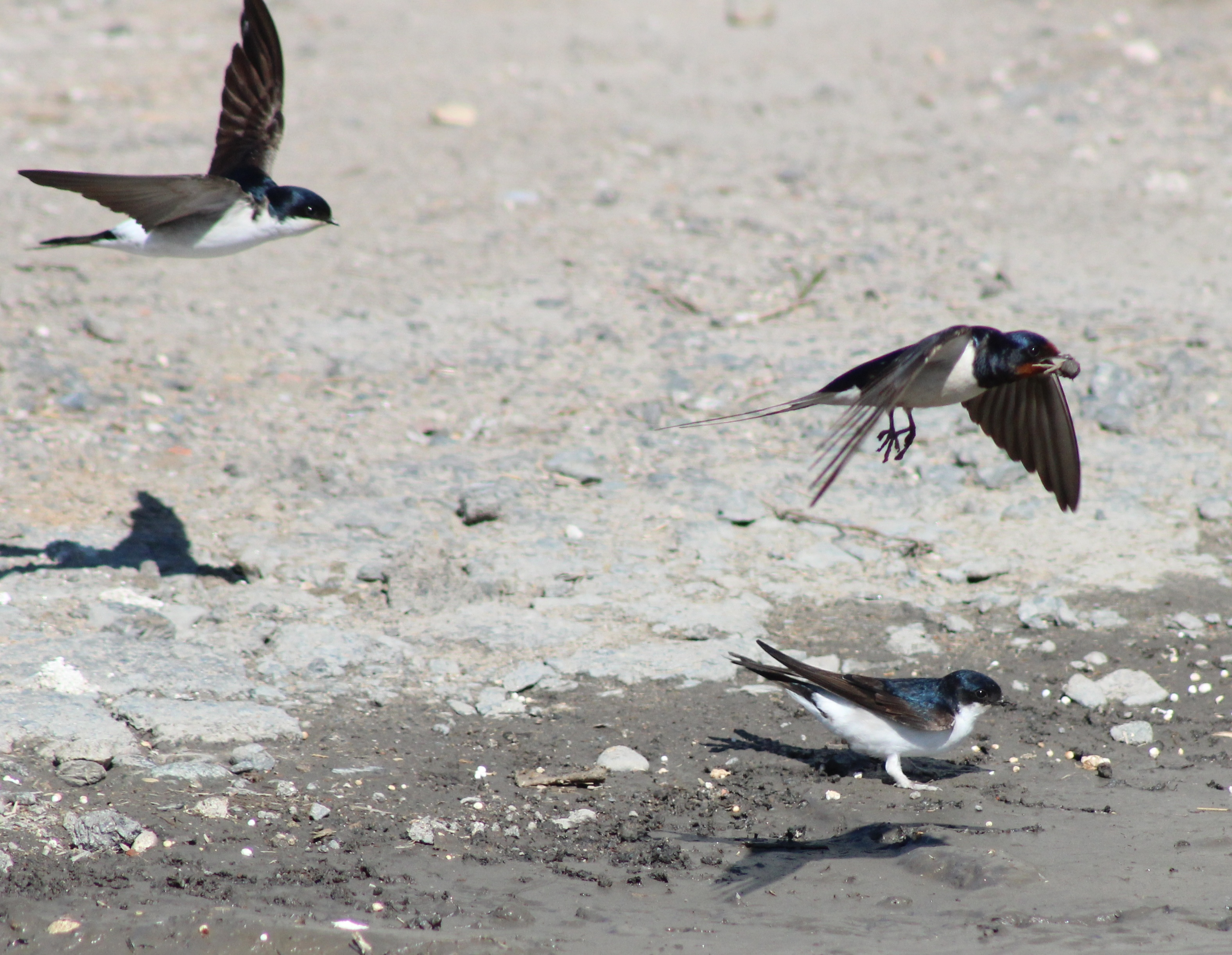 Two House Martins (Delichon urbicum) and a Barn Swallow (Hirundo rustica) gathering mud for their nests in Toppila, Oulu.